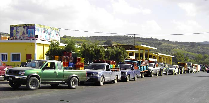 Peza Union Crete, Greece